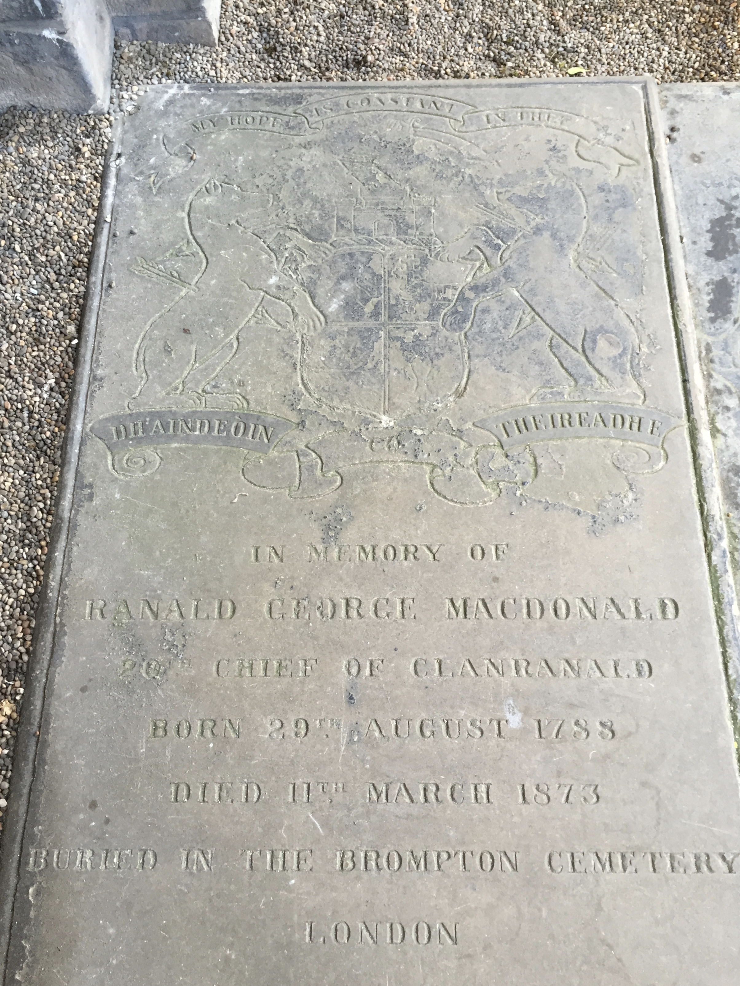 Ranald George MacDonald, Chief of Clanranald, Born 29 August 1788, Died 11 March 1873, Buried in the Brompton Cemetery, London.